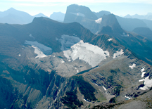 Swiftcurrent Glacier as seen from Swiftcurrent Pass